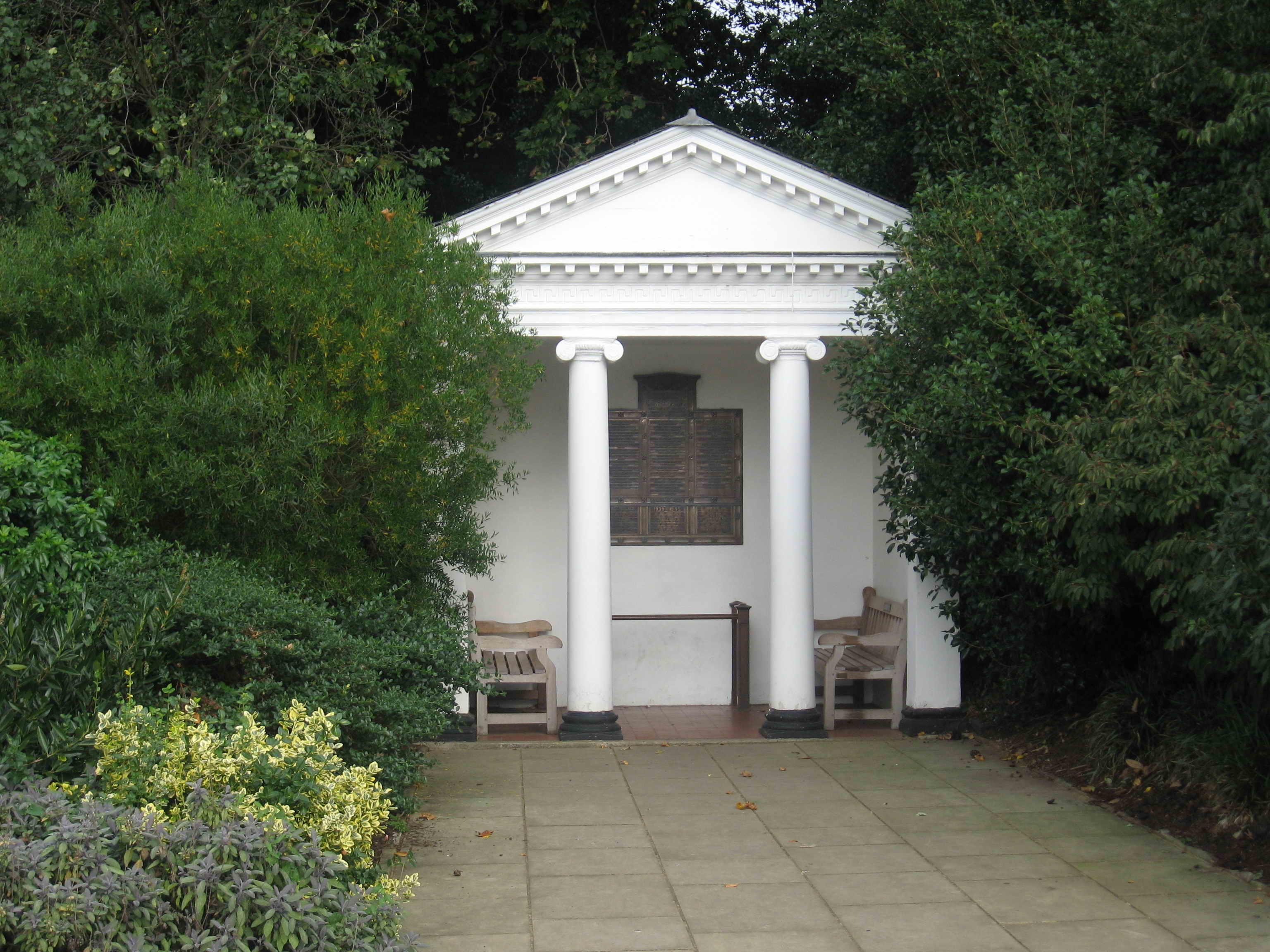 Kew Arethusza church